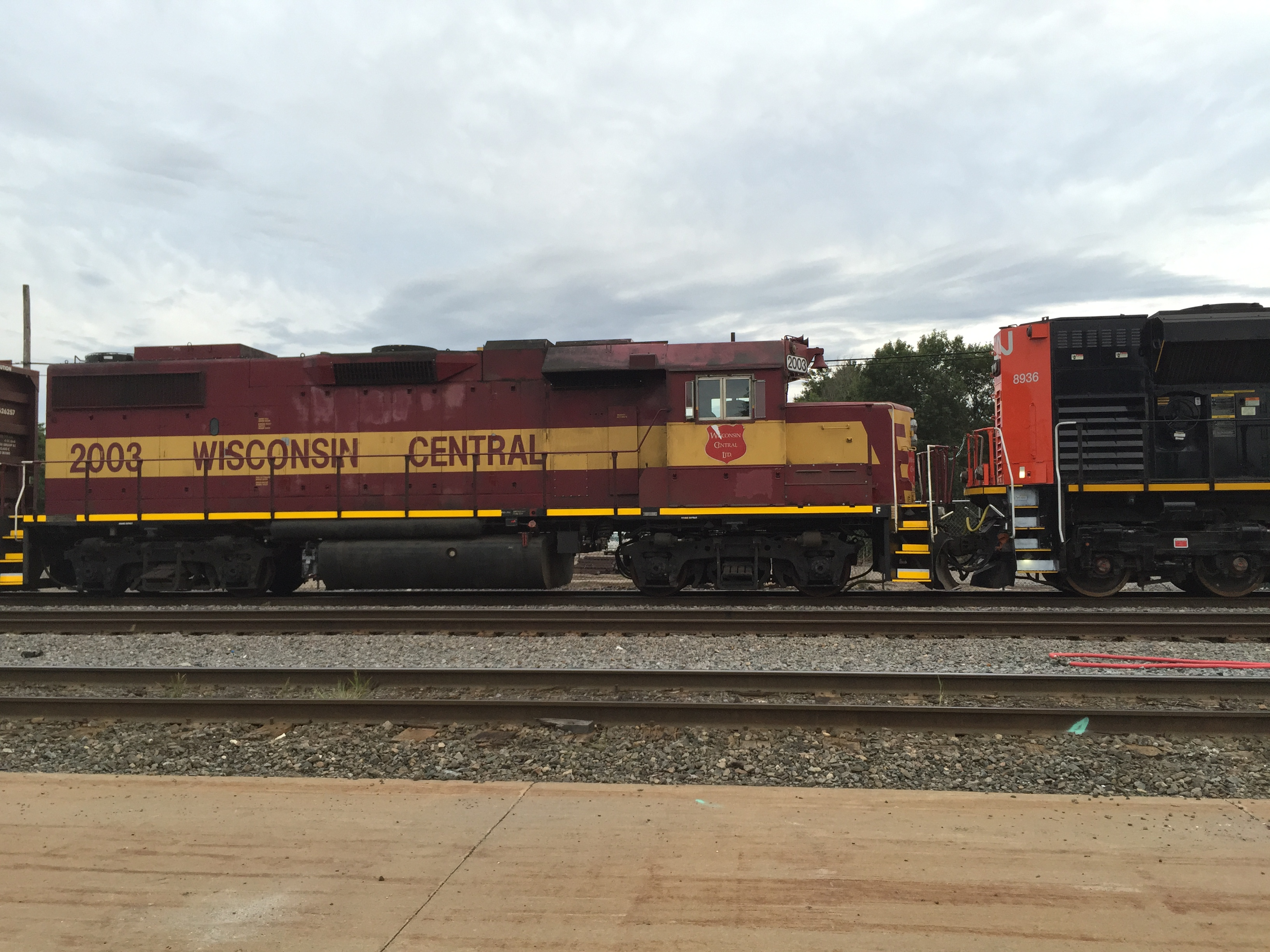 Wisconsin Central ex-AC GP38-2 #2003, one of WC's surviving GP38-2 units, is seen behind a CN EMD SD70M-2 in Stevens Point, Wisconsin